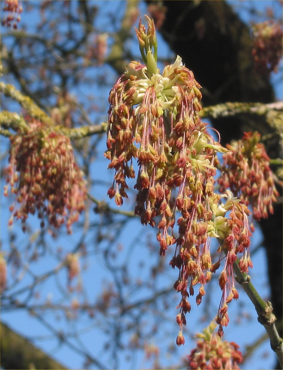 Acer negundo male inflorescens